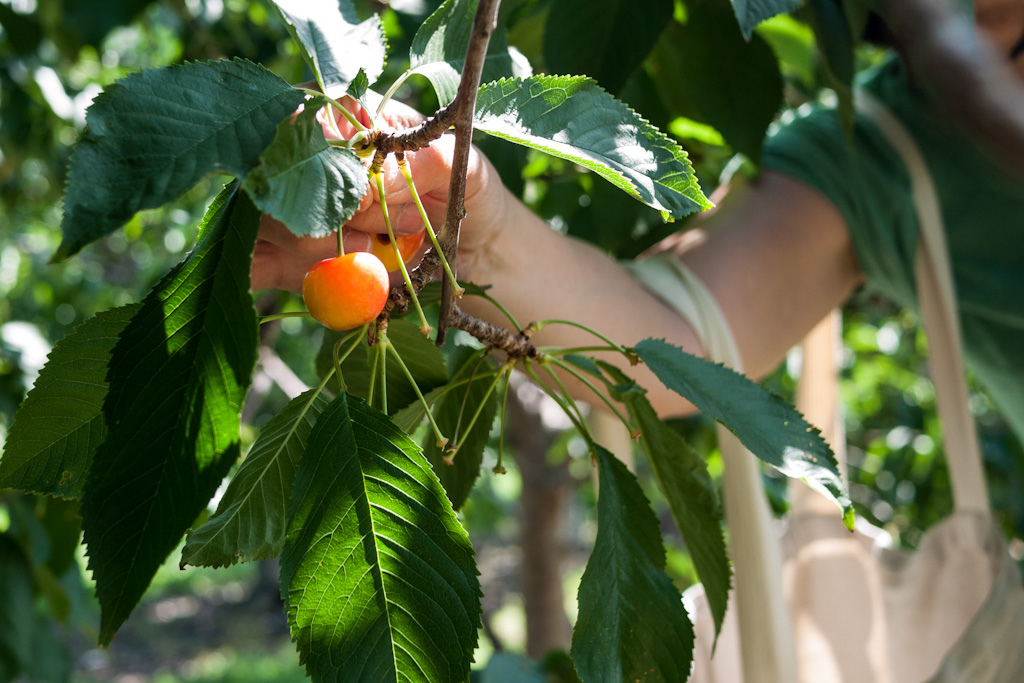 Cherry picking